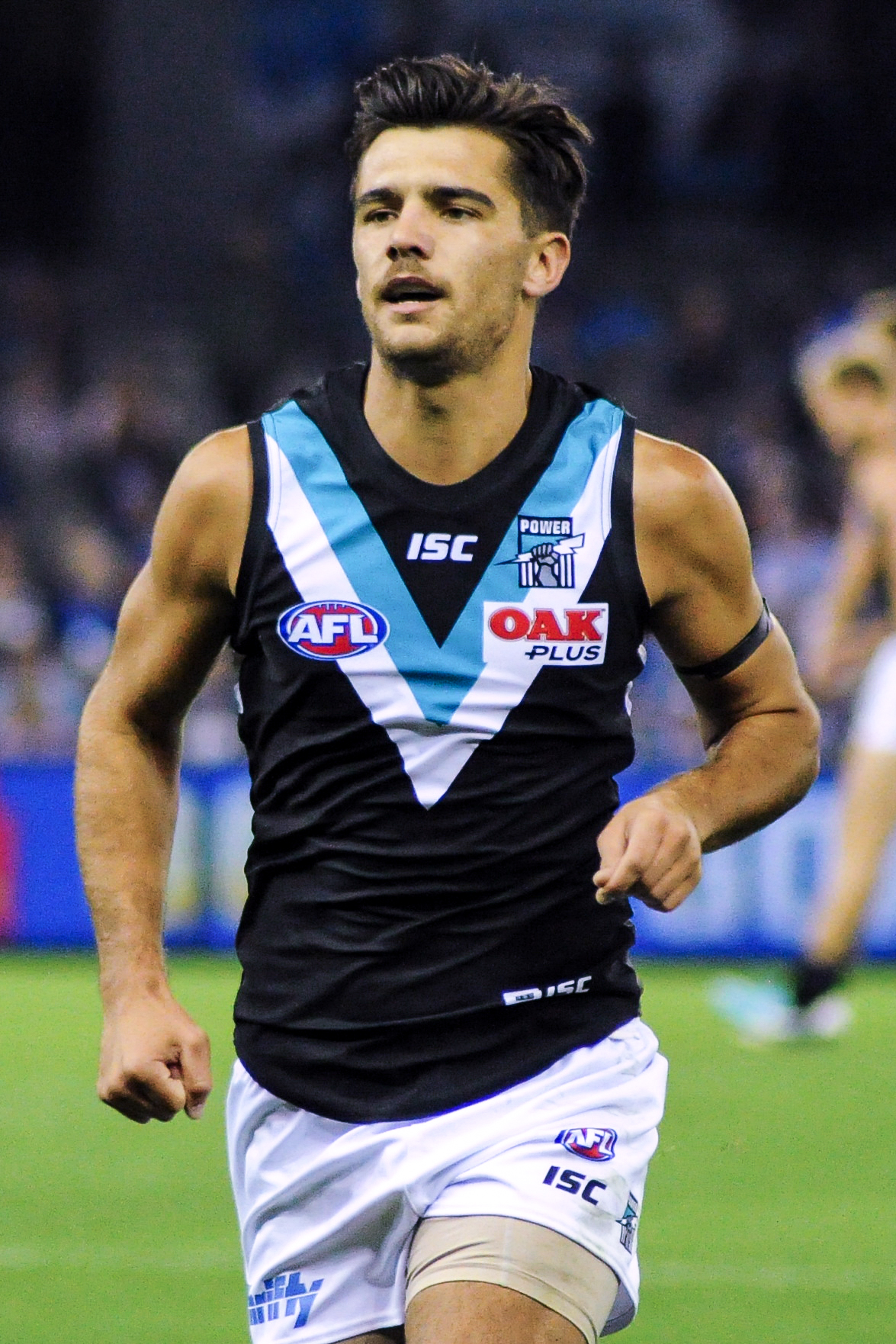 Riley Bonner during the AFL round six match between North Melbourne and Port Adelaide on Saturday, 28 April 2018 at Etihad Stadium in Melbourne, Victoria.